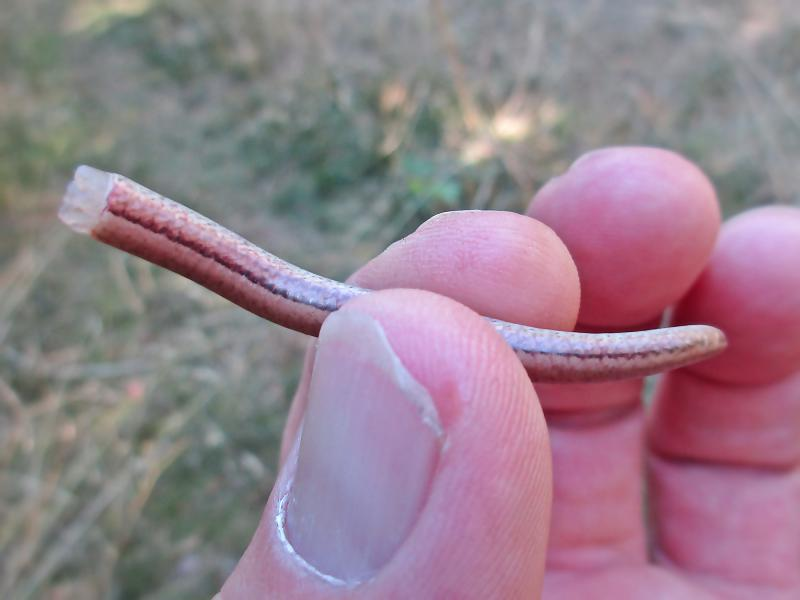 Anguis fragilis (Anguidae sp.), Swalmen, the Netherlands